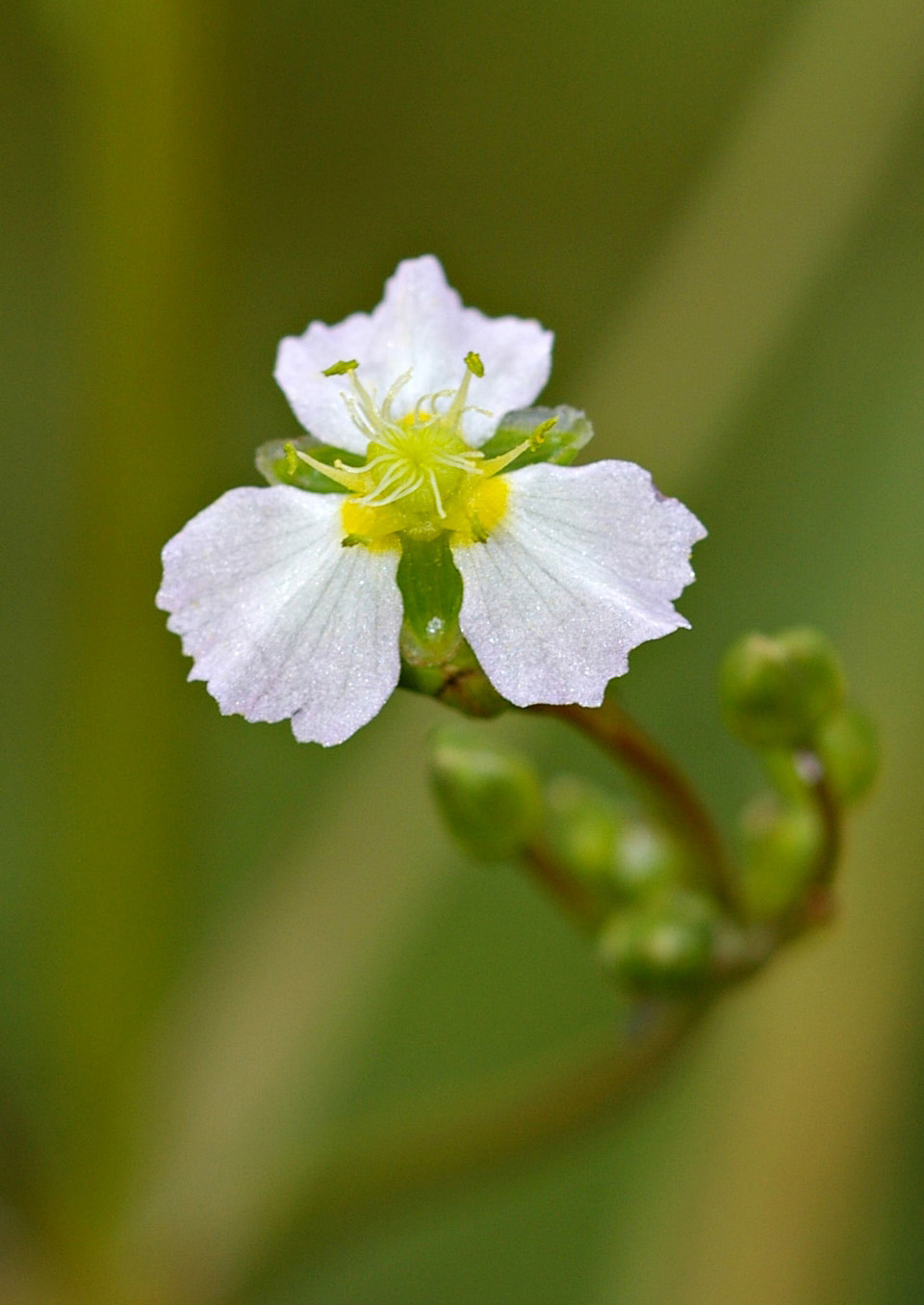 Close-up of a single blossom of Common Water-plantain, Alisma plantago-aquatica.